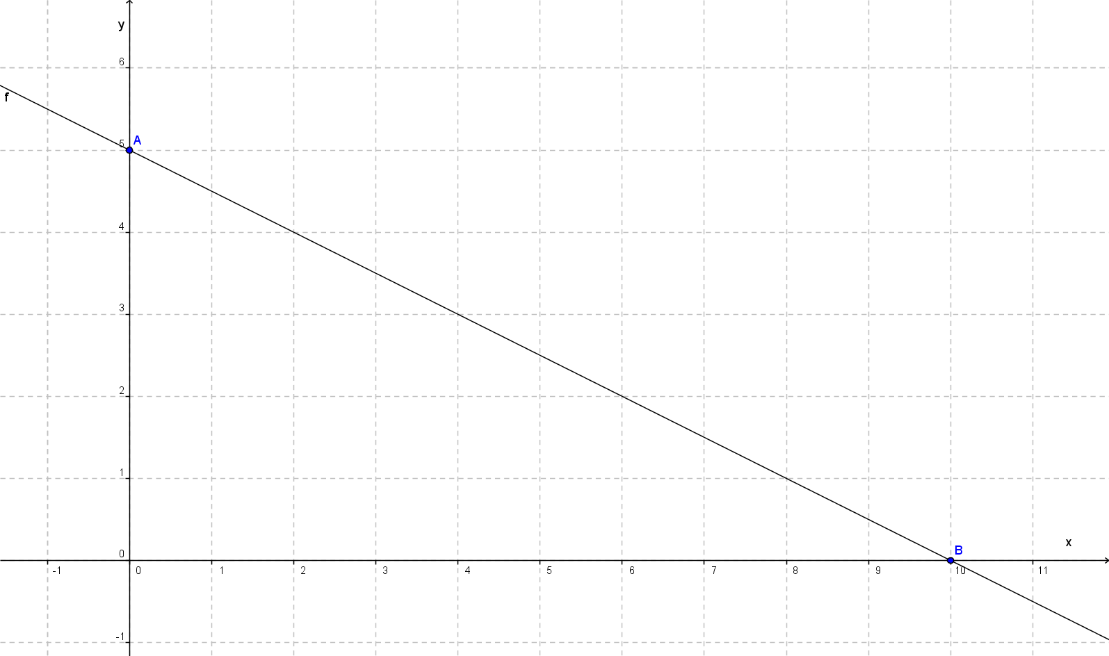 Budget constraint: graphic example